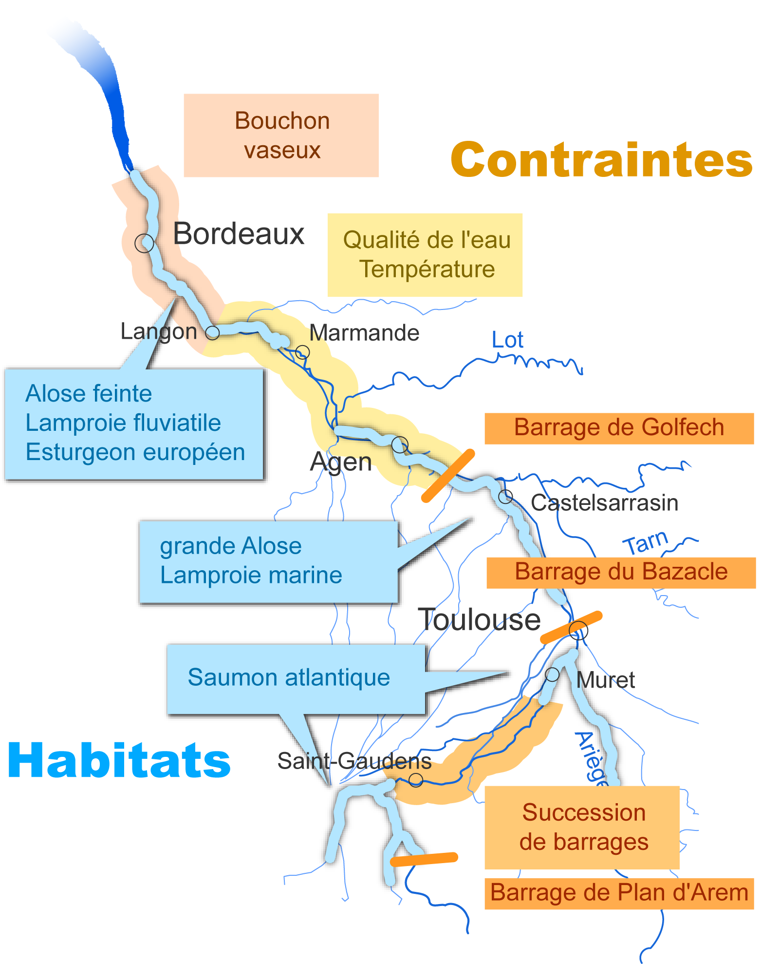 Map of Garonna river about migratory fishes